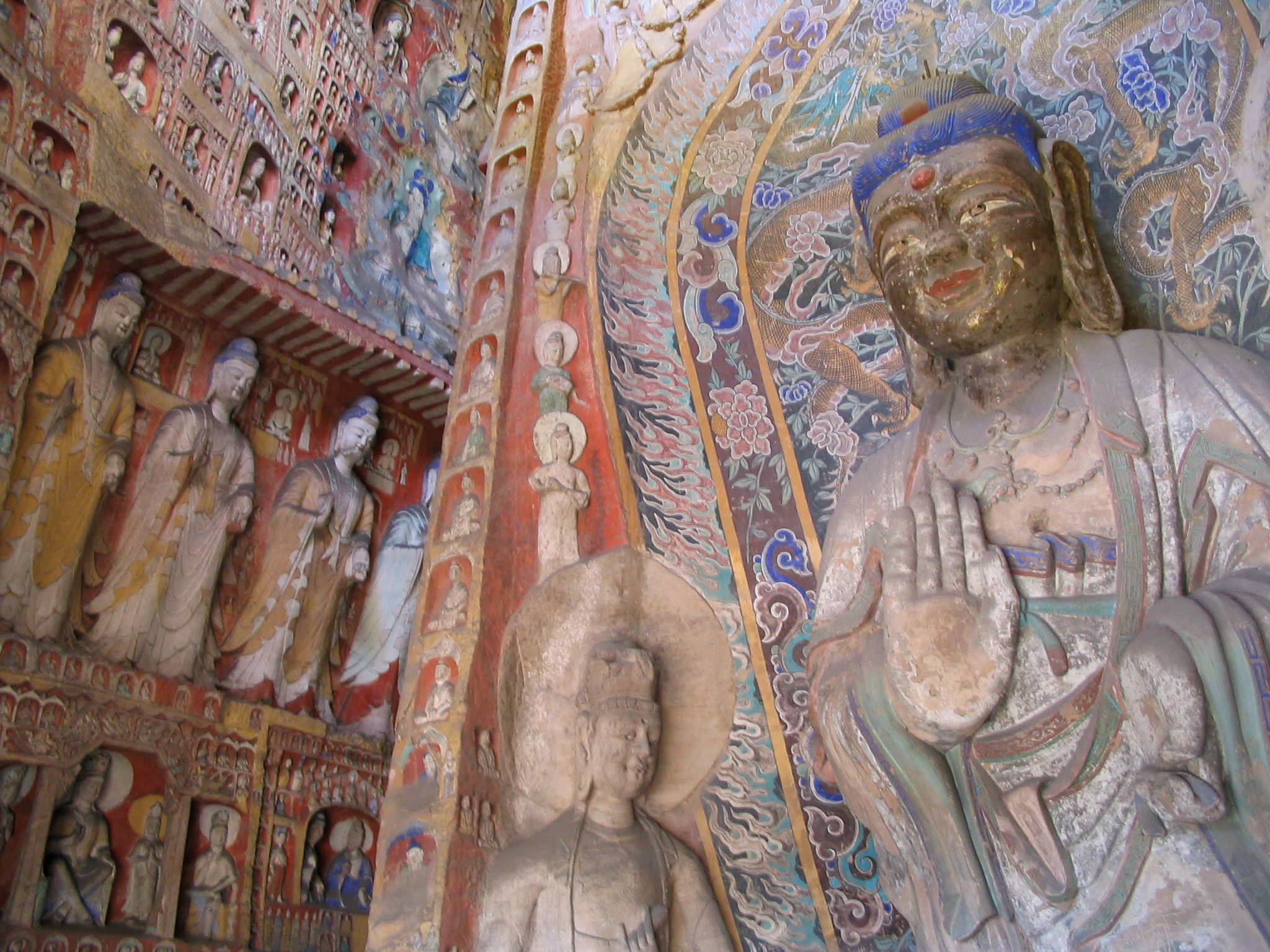 Cave 11, Yungang Grottoes, near Datong, Shanxi province, China.